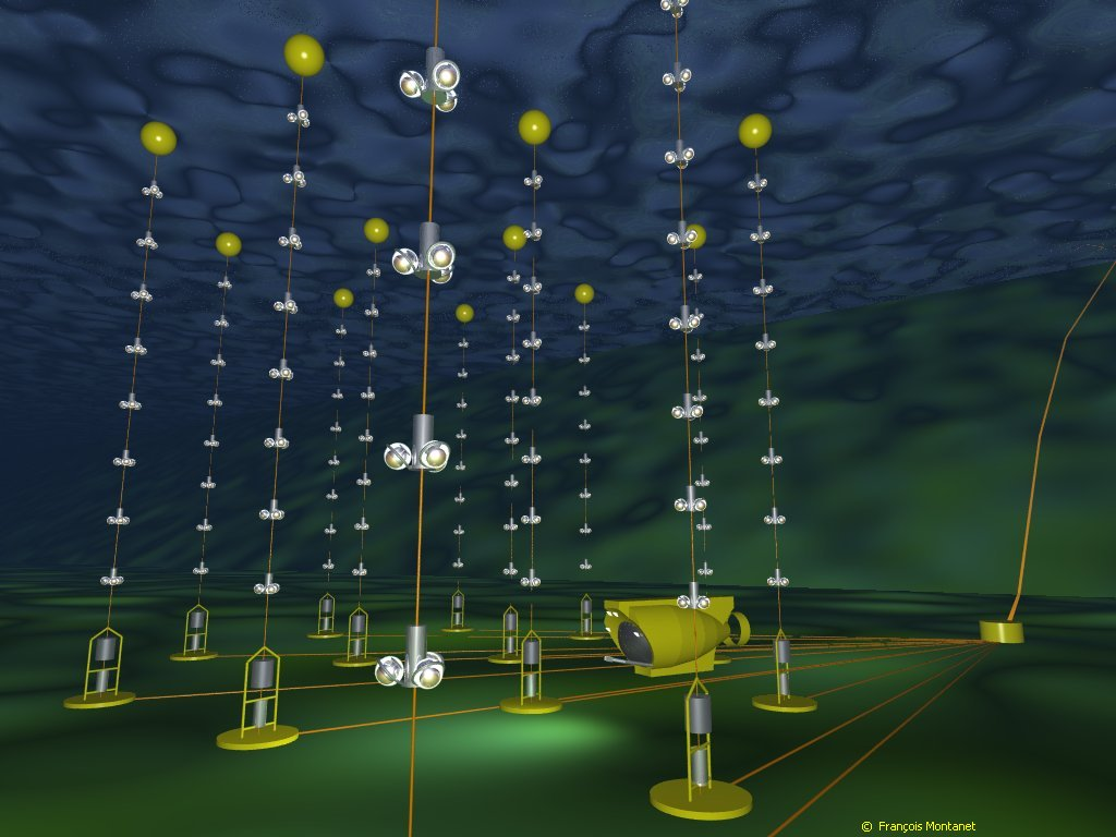 Setup view of Antares neutrino detector